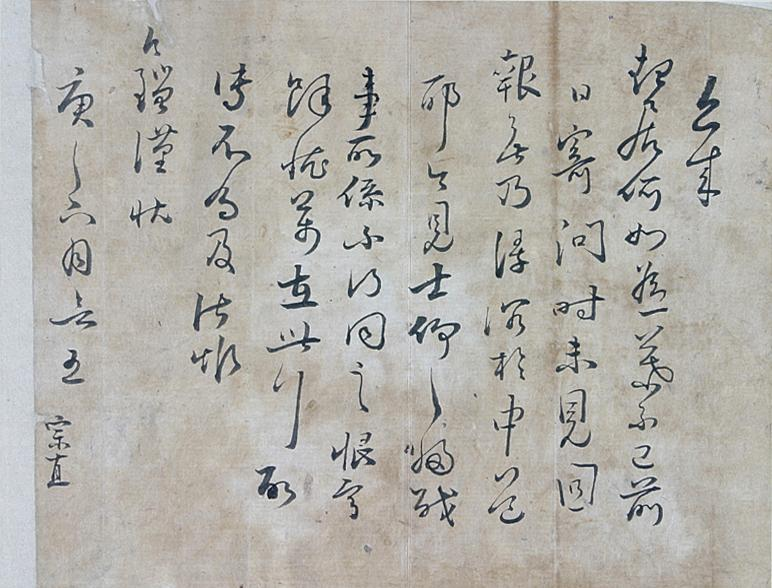 Letter of Kim Jong-jik